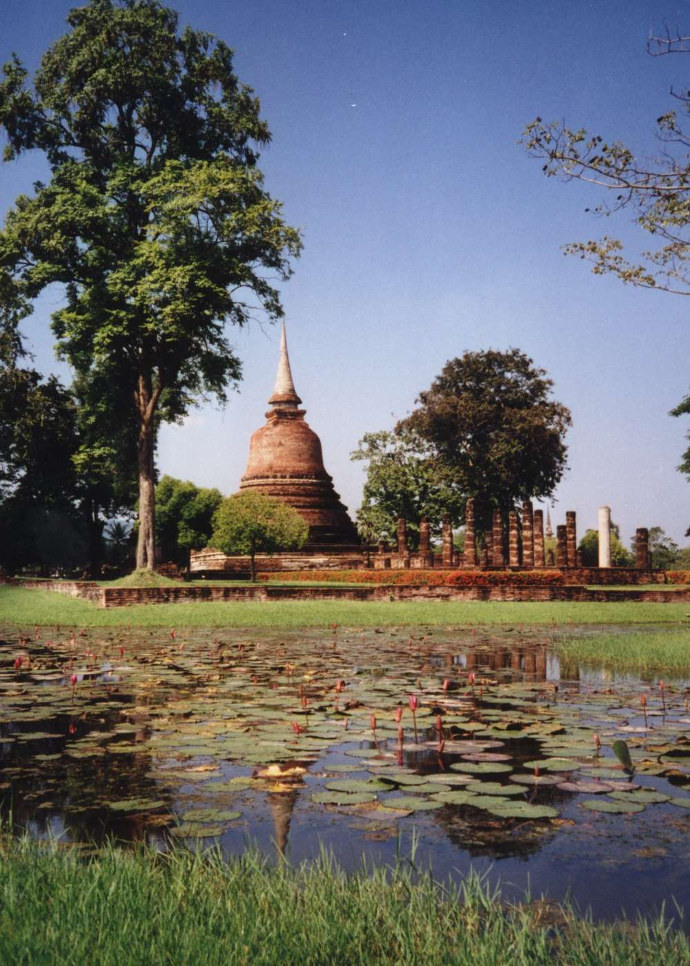 Sukhothai historical park, Sukhothai province, Thailand Photo taken by User:Ahoerstemeier on October 28 2000.